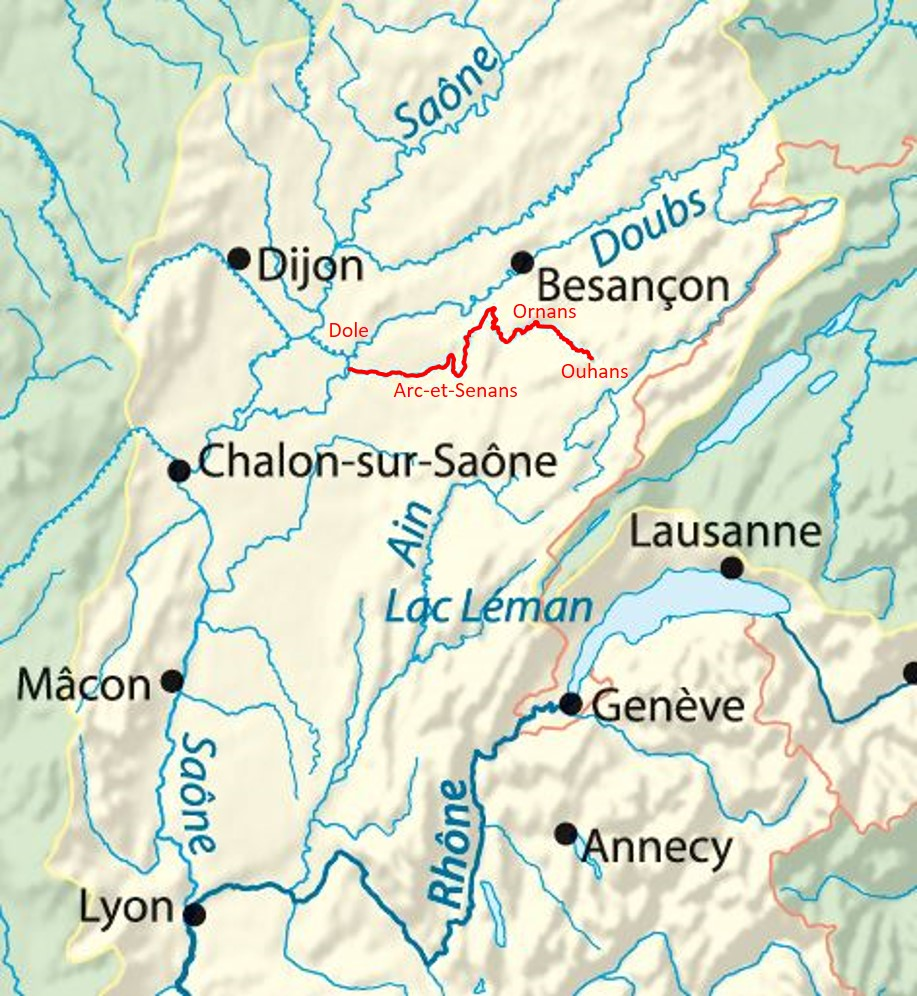 Map of the course of the river Loue in the Franche-Comté region (France).